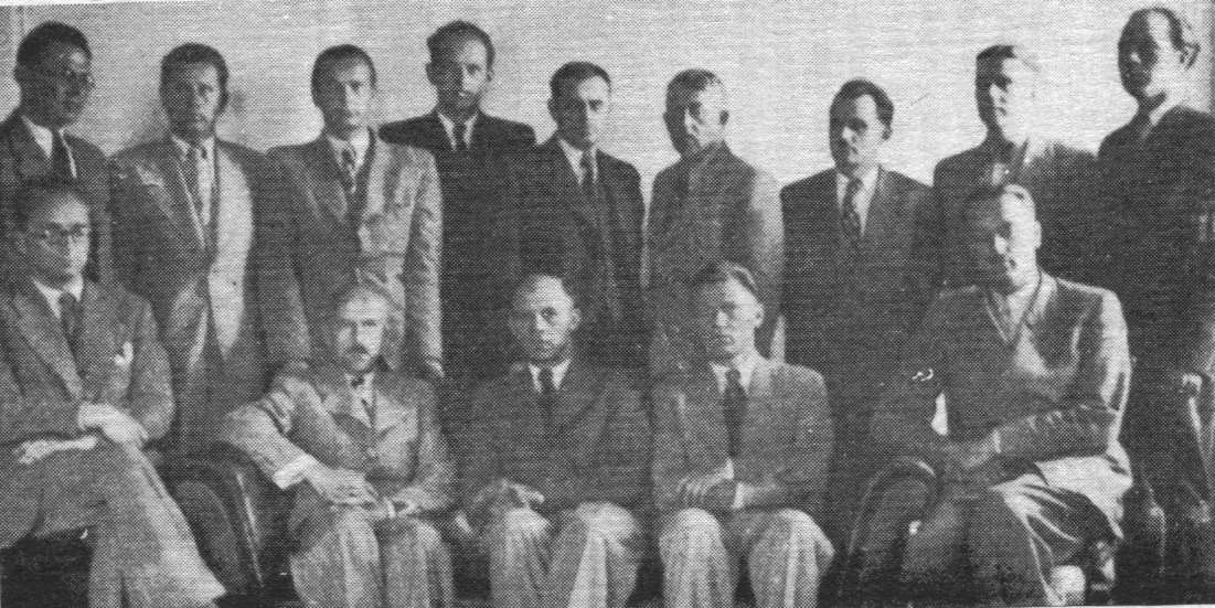 Participants of the last session of the Provisional Government of Lithuania, who signed a protest for the Germans actions of suspending the Lithuanian government powers.